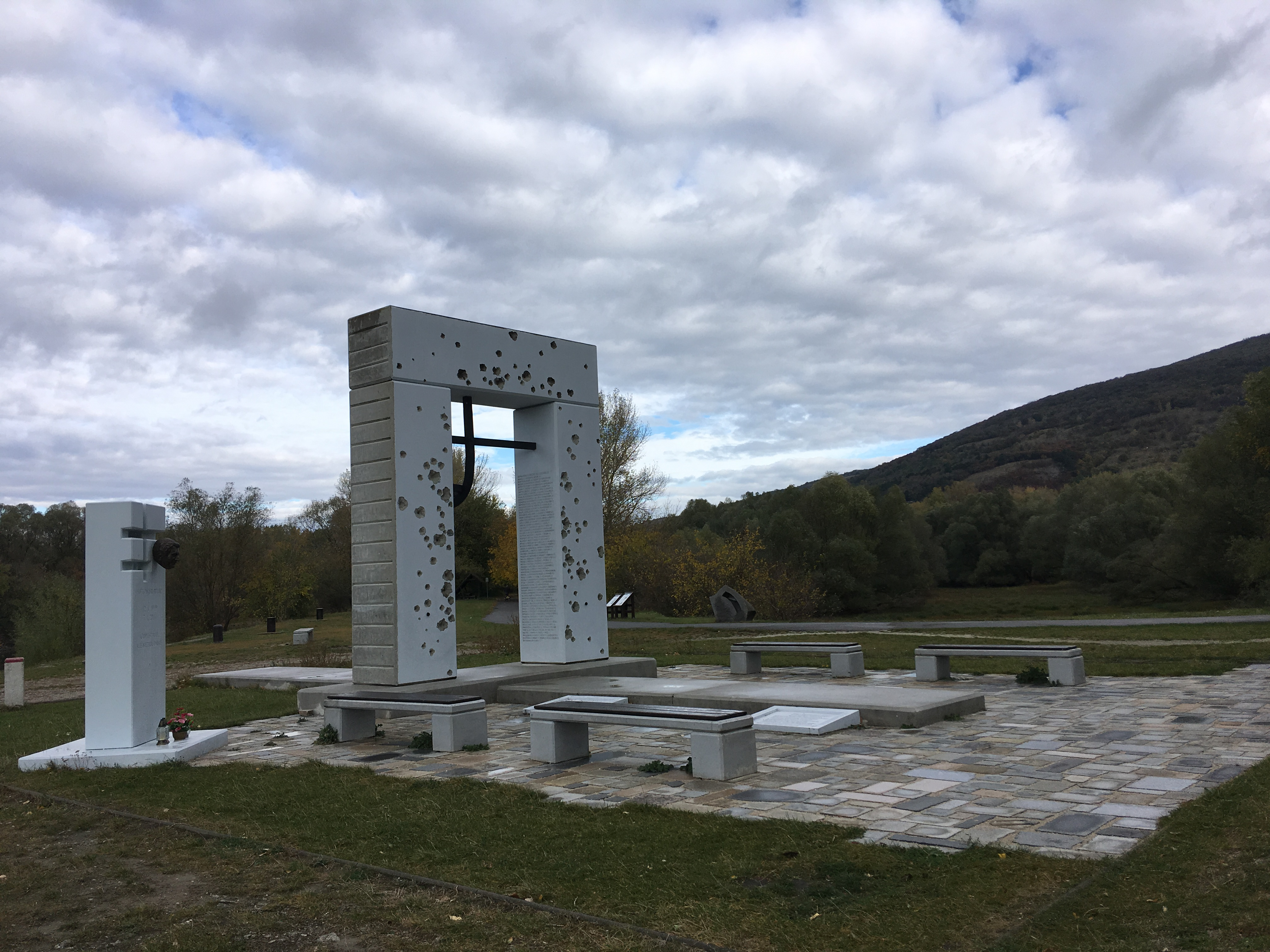 The Gate of Freedom Devin Slovakia